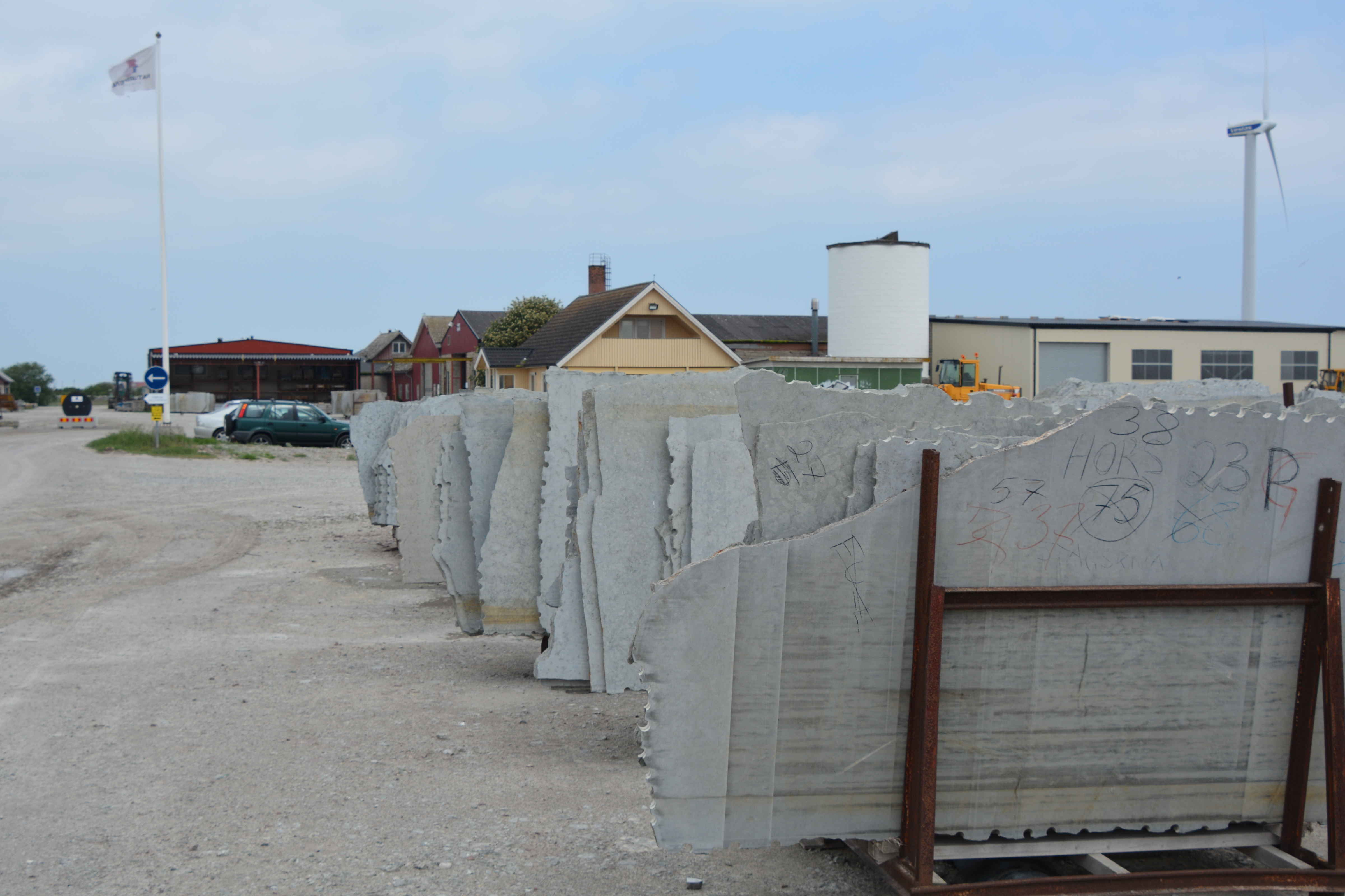 Sågad kalksten, Naturstenskompaniet i Stensvik